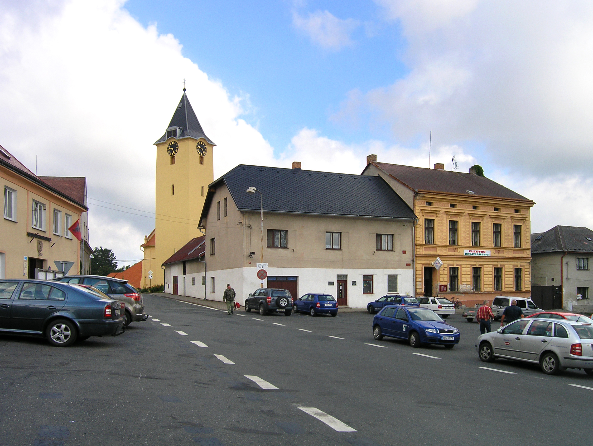 Main square in Zbraslavice, Czech Republic